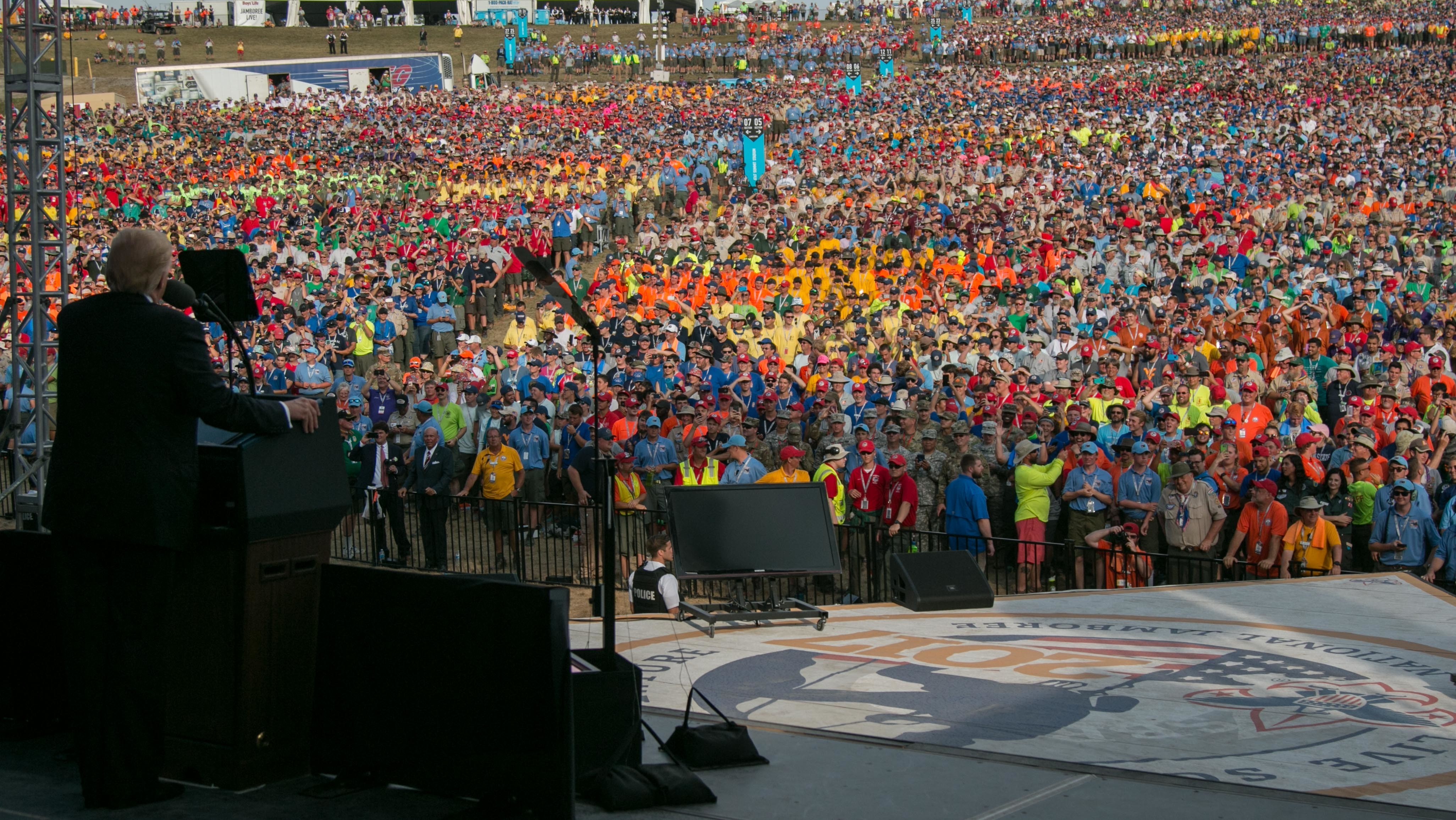 President Donald J. Trump addresses a crowd at the Boy Scouts of America’s 2017 National Jamboree at the Summit Bechtel Reserve near Glen Jean, W.Va., July 24, 2017. He is the eighth president to attend the National Jamboree. (U.S. Army photo by Spc. Dustin D. Biven / 22nd Mobile Public Affairs Detachment) Unit: 22nd Mobile Public Affairs Detachment DVIDS Tags: president; crowd; leadership; america; boy scouts; west virginia; boys; scouts; speech; military; army; national guard; jamboree; Summit Bechtel Reserve; trump; donald j. trump; President Trump; 2017jambo; 2017Jamboree; jambo2017; jamboree2017; 2017 national jamboree; jambojtf; the donald; President45; Mr.Trump; Mr. Trump